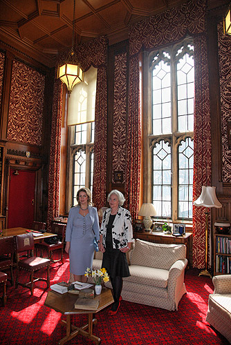 LONDON. Svetlana Medvedeva with Lord Speaker Helene Hayman, Baroness Hayman.